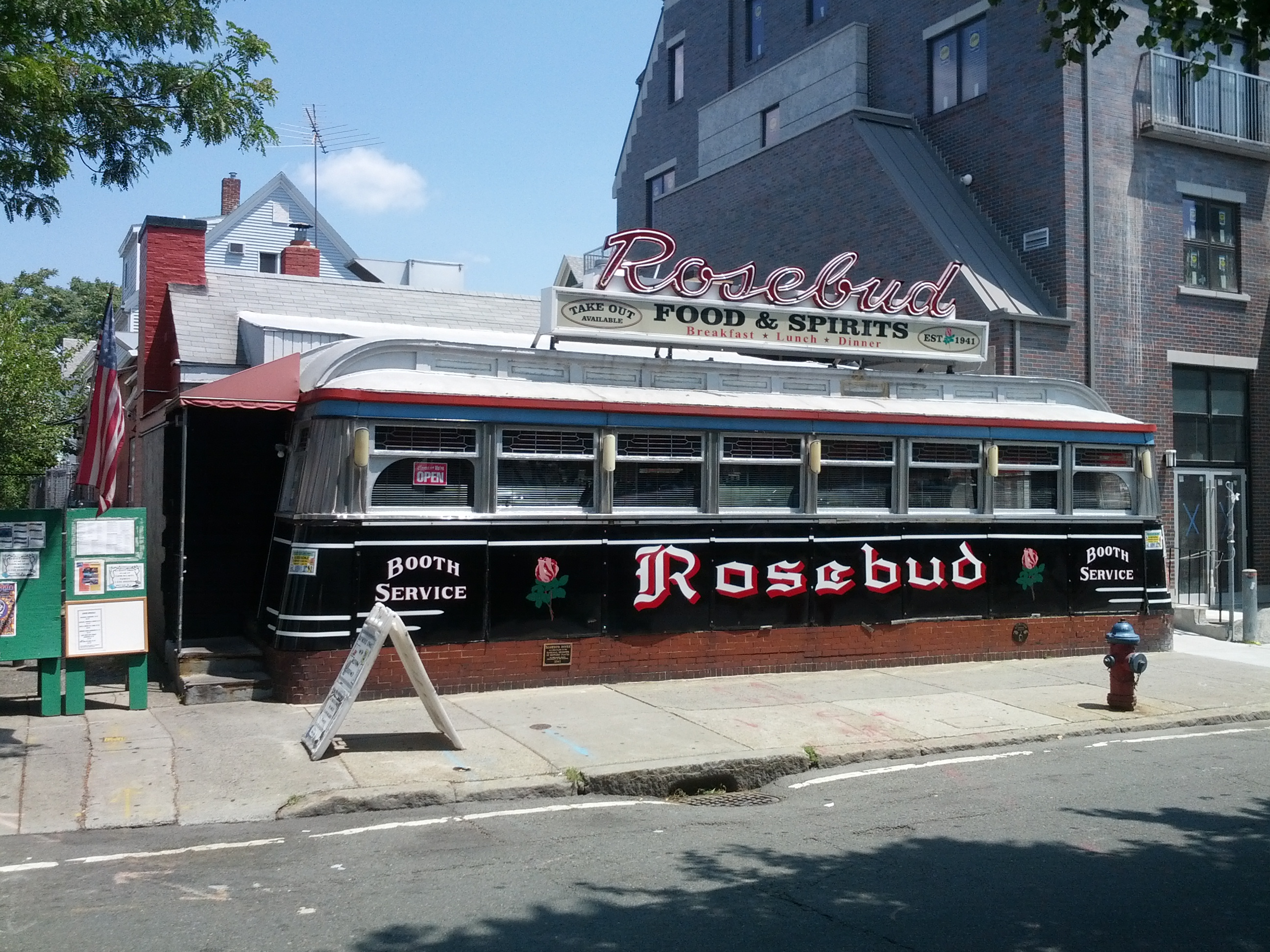 Rosebud Diner in Davis Square, Somerville, MA